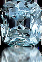 MouawadQueenHalland collection. Other information Permission to use this photo as a gallery image has been sent to .